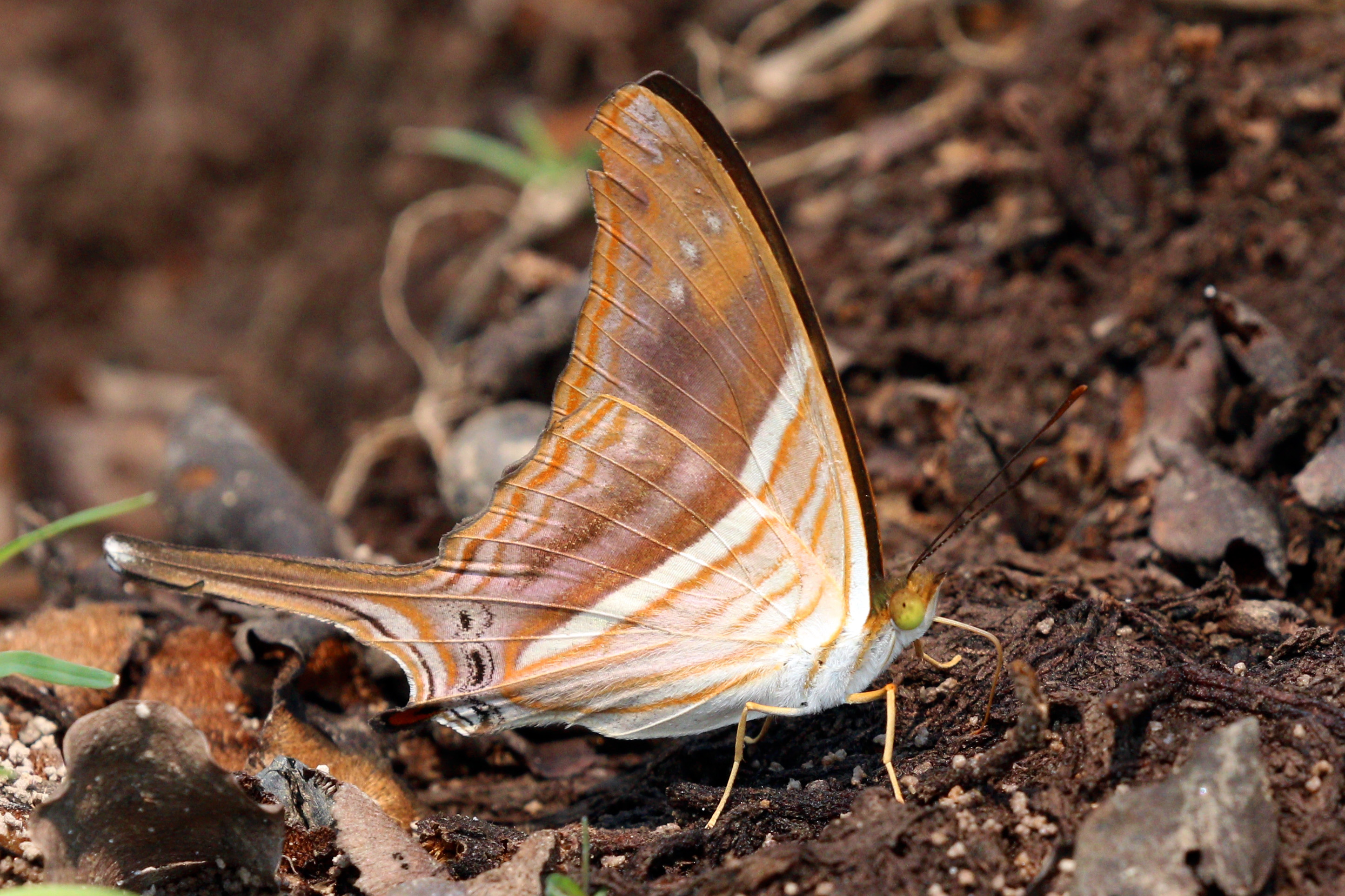 Many-banded daggerwing (Marpesia chiron), the Pantanal, Brazil